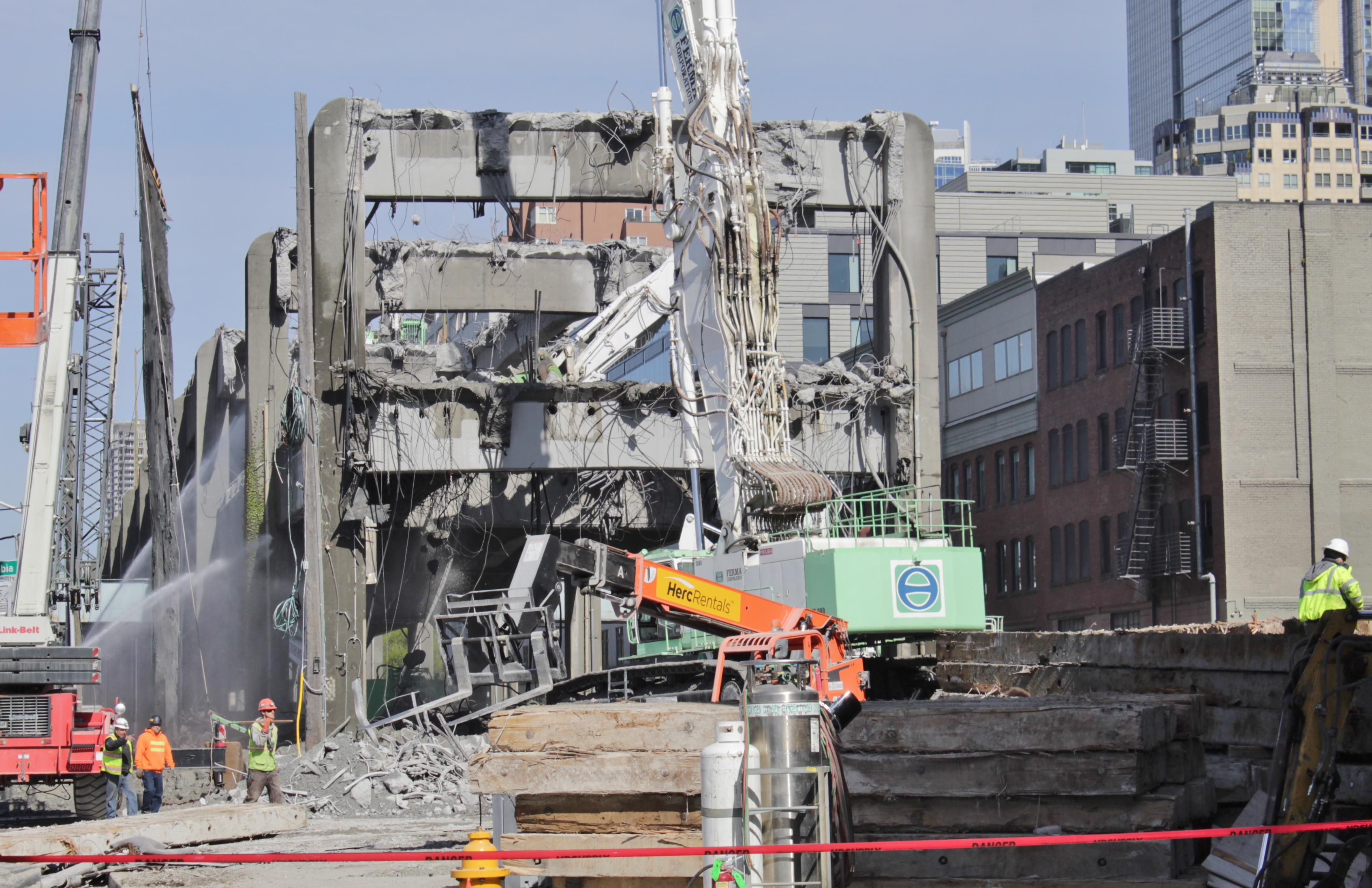 A section of the Alaskan Way Viaduct in downtown Seattle undergoing demolition.